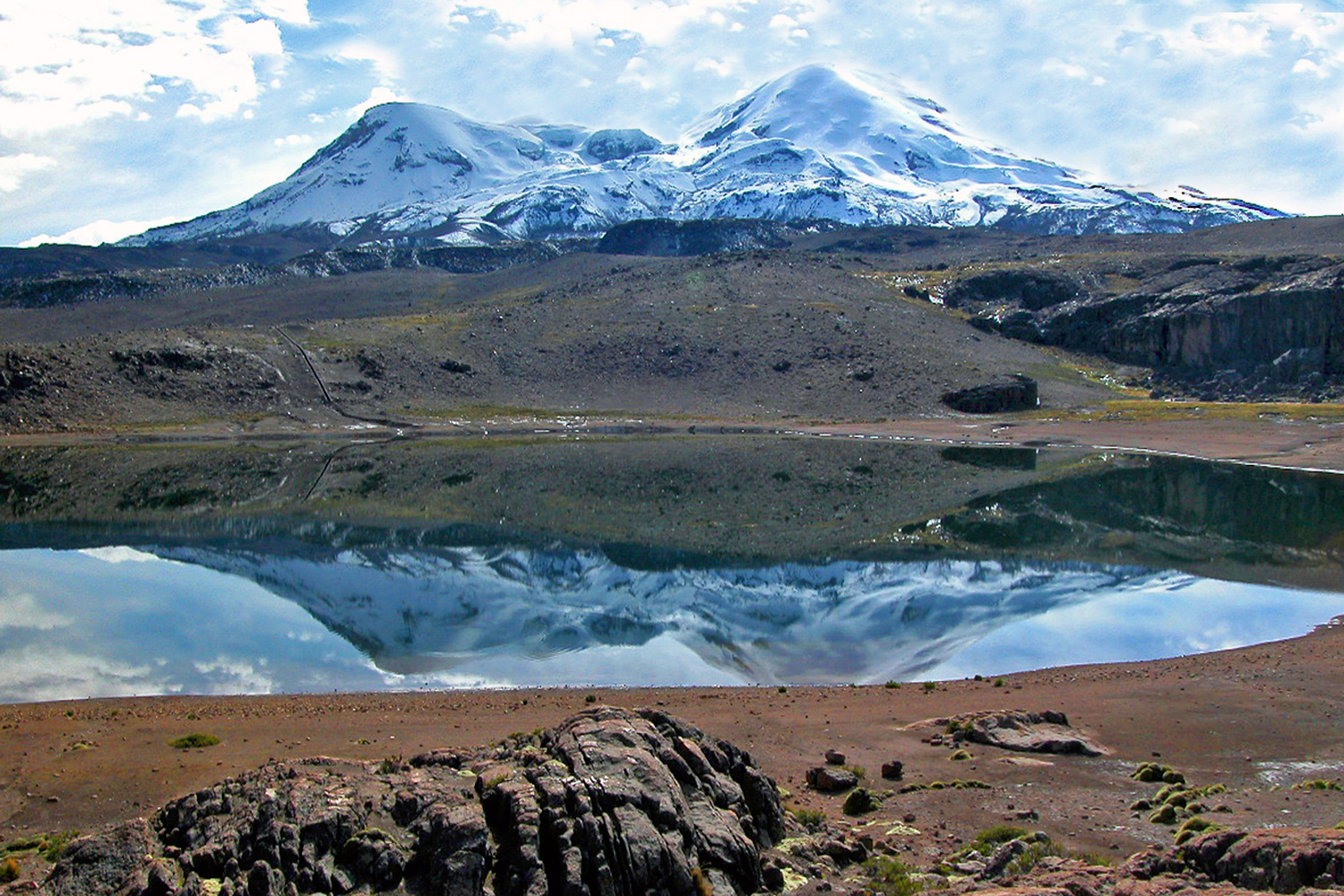 Volcano Coropuna (Arequipa - Peru) belongs to the Cordillera de Ampato